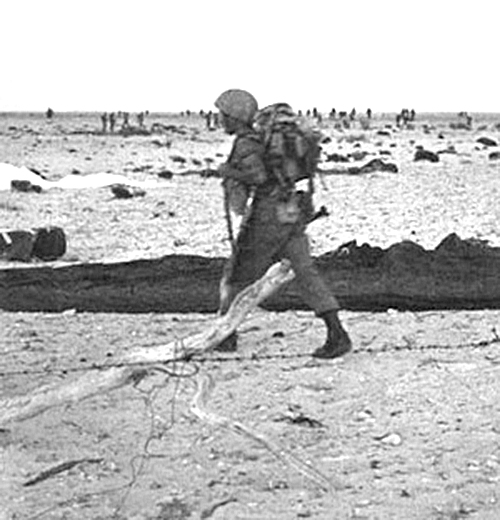 Israely paratrooper after dropping. Mitla, Sinai. Operation Kadesh (1956).